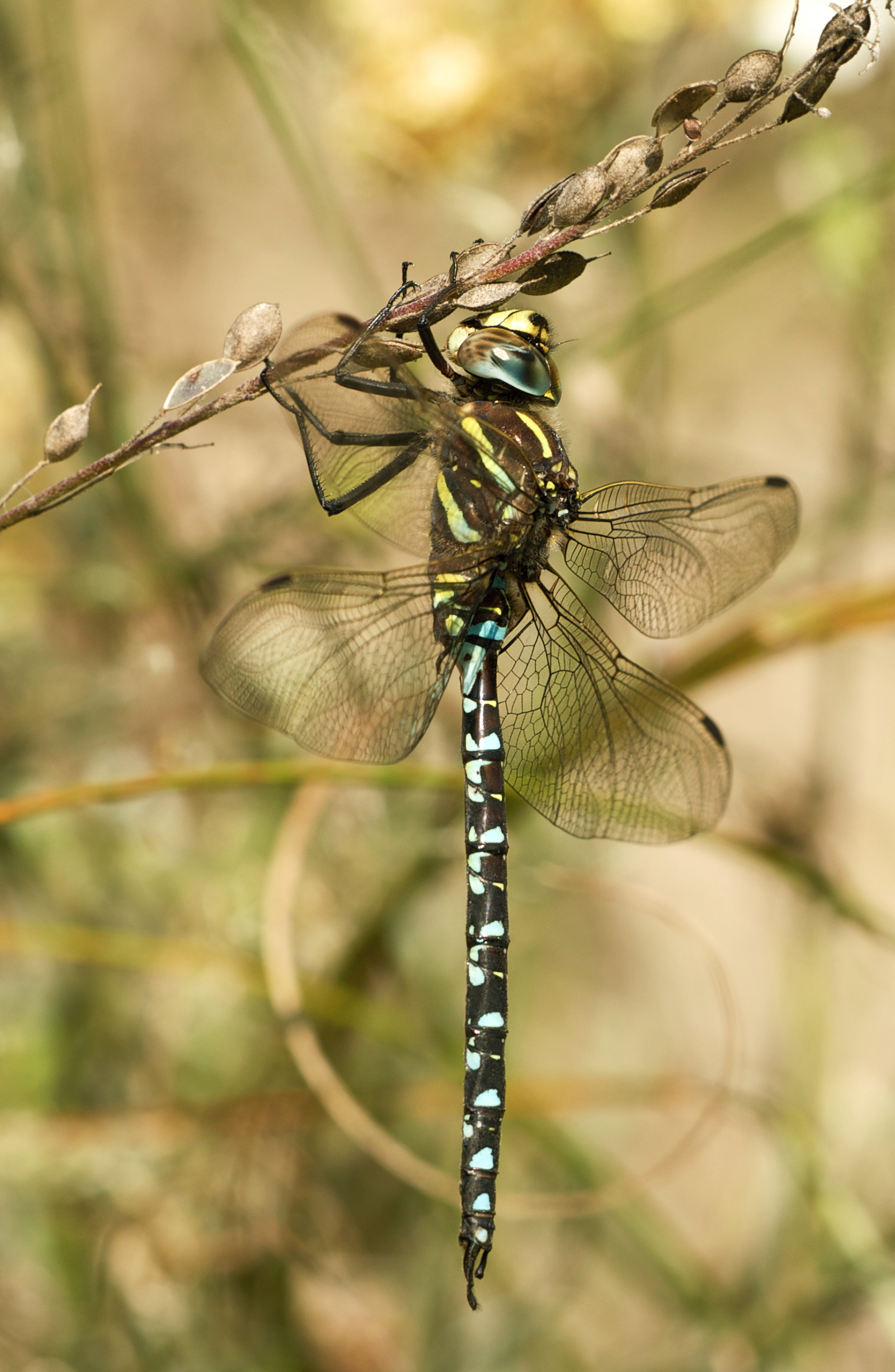 Male Common Hawker (Aeshna juncea), Chemnitz, Germany